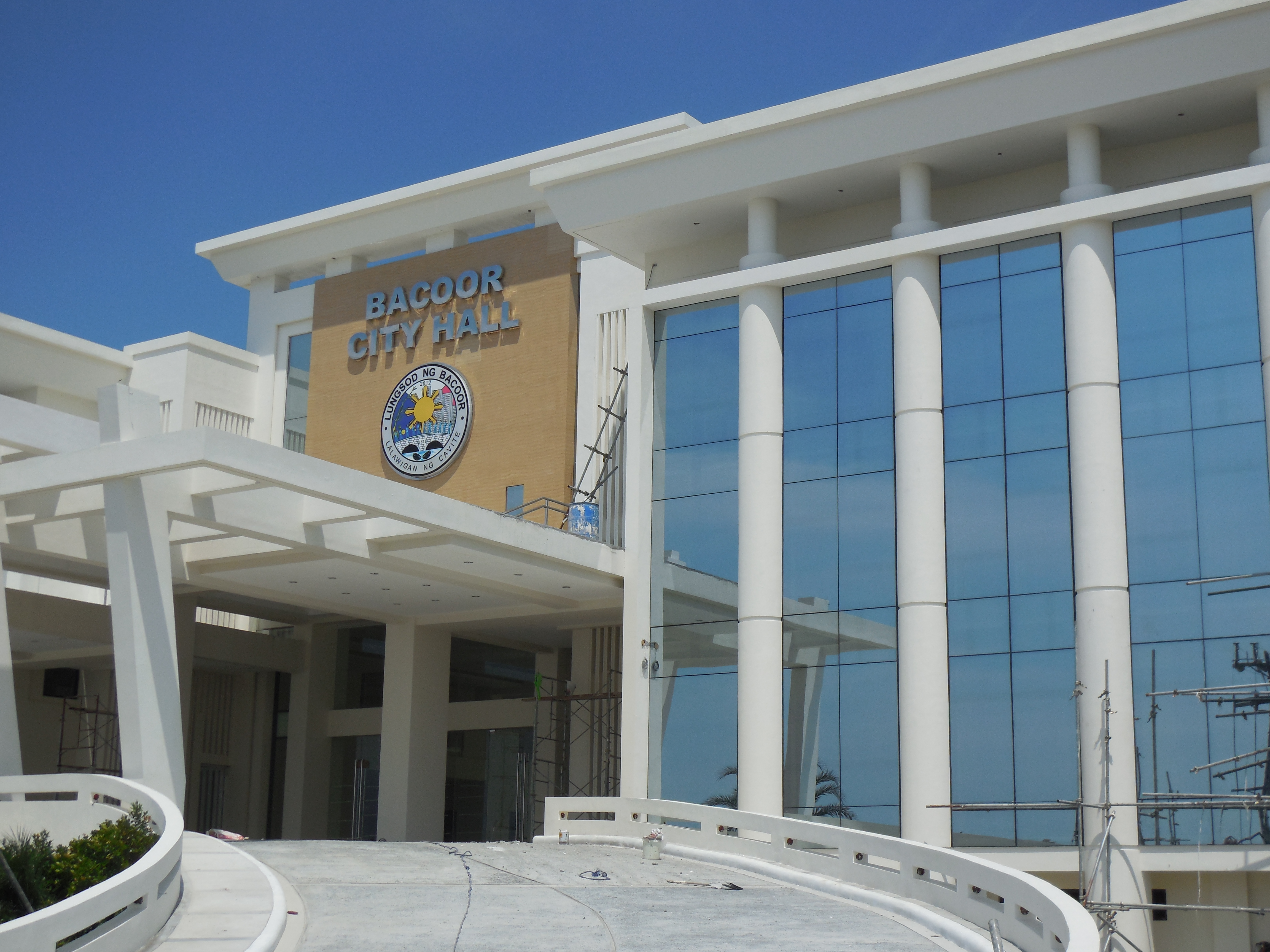 The facade of the New Bacoor City Hall at the Bacoor Government Center along Bacoor Boulevard in Barangay San Nicolas II, Bacoor, Cavite, Philippines